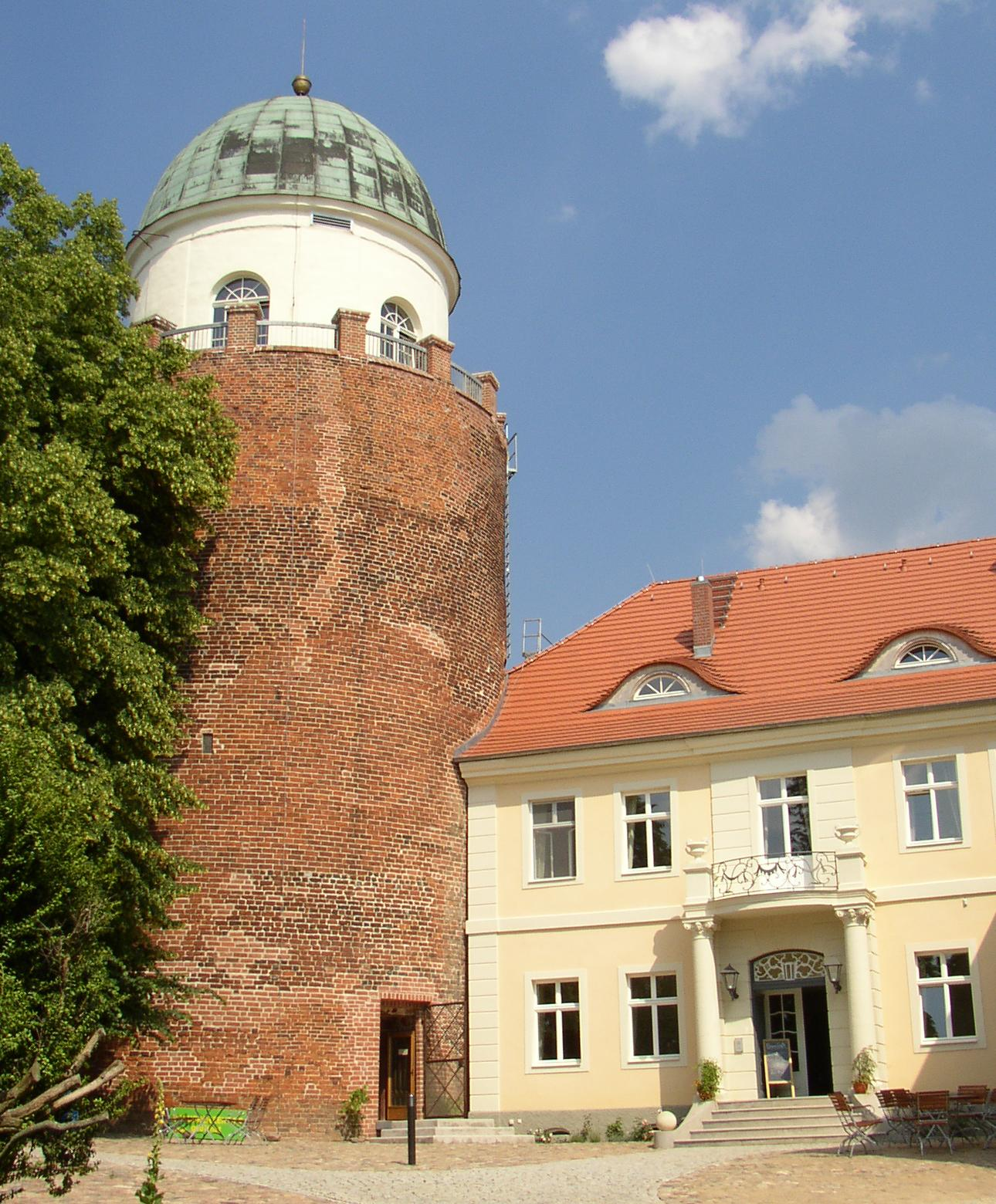 Castle in Lenzen in Brandenburg, Germany